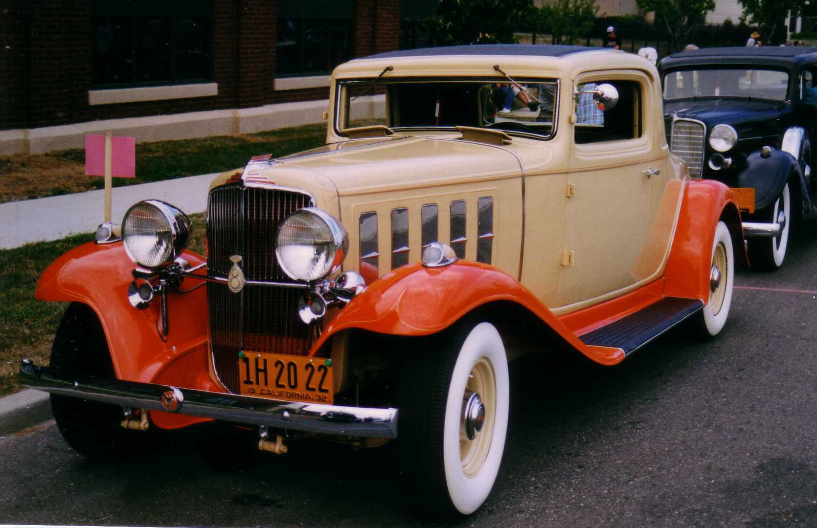 1932 Nash 1082R Ambassador Rumble Seat Coupe — Side view